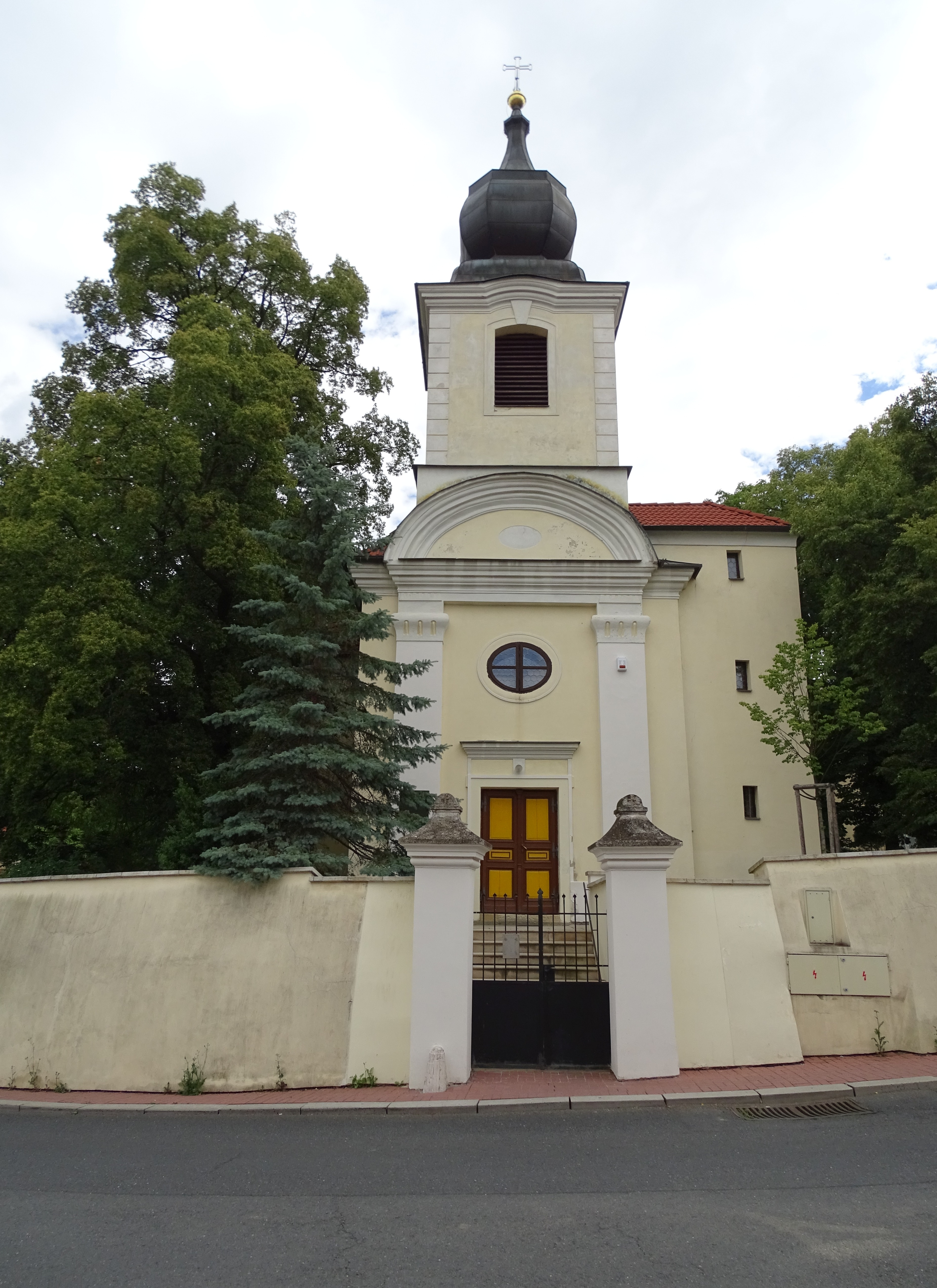 Prague-Bohnice, Czech Republic. Bohnická, a church of Saints Peter and Paul.